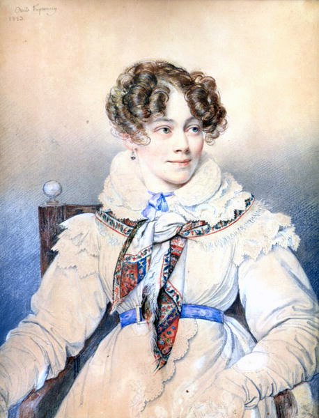 Sophie Rostopchine, Comtesse de Ségur